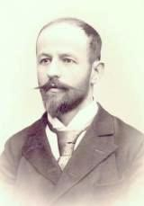 Ján R. Kvačala (1862-1934), Slovak historian, theologian and pedagogist.